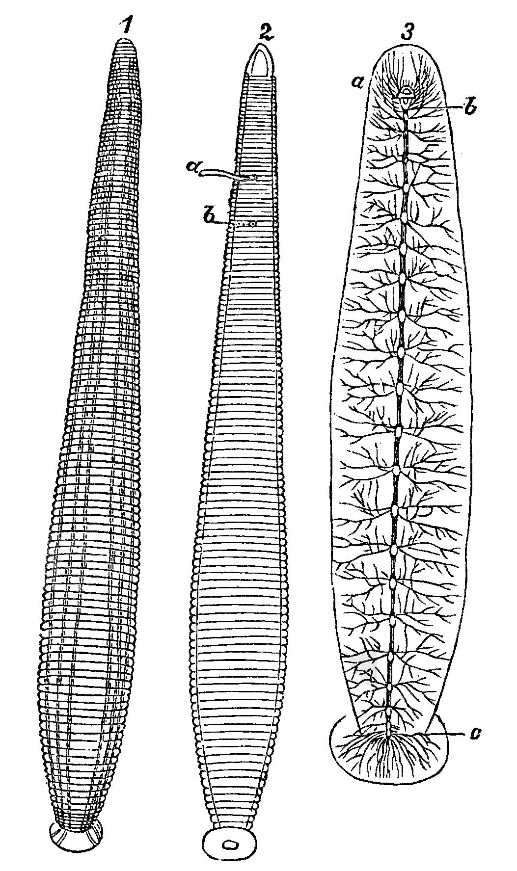 Fig. 1 1. The Medicinal Leech (Hirudo medicinalis) seen from above. 2. The same, under side; a b, sexual organs. 3. The nervous cord with its ramifications: a, forward upper part; b, forward lower part; c, posterior nervous node.